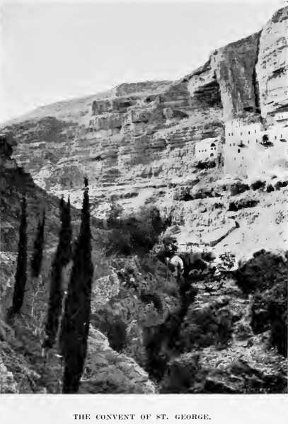 St George 1913